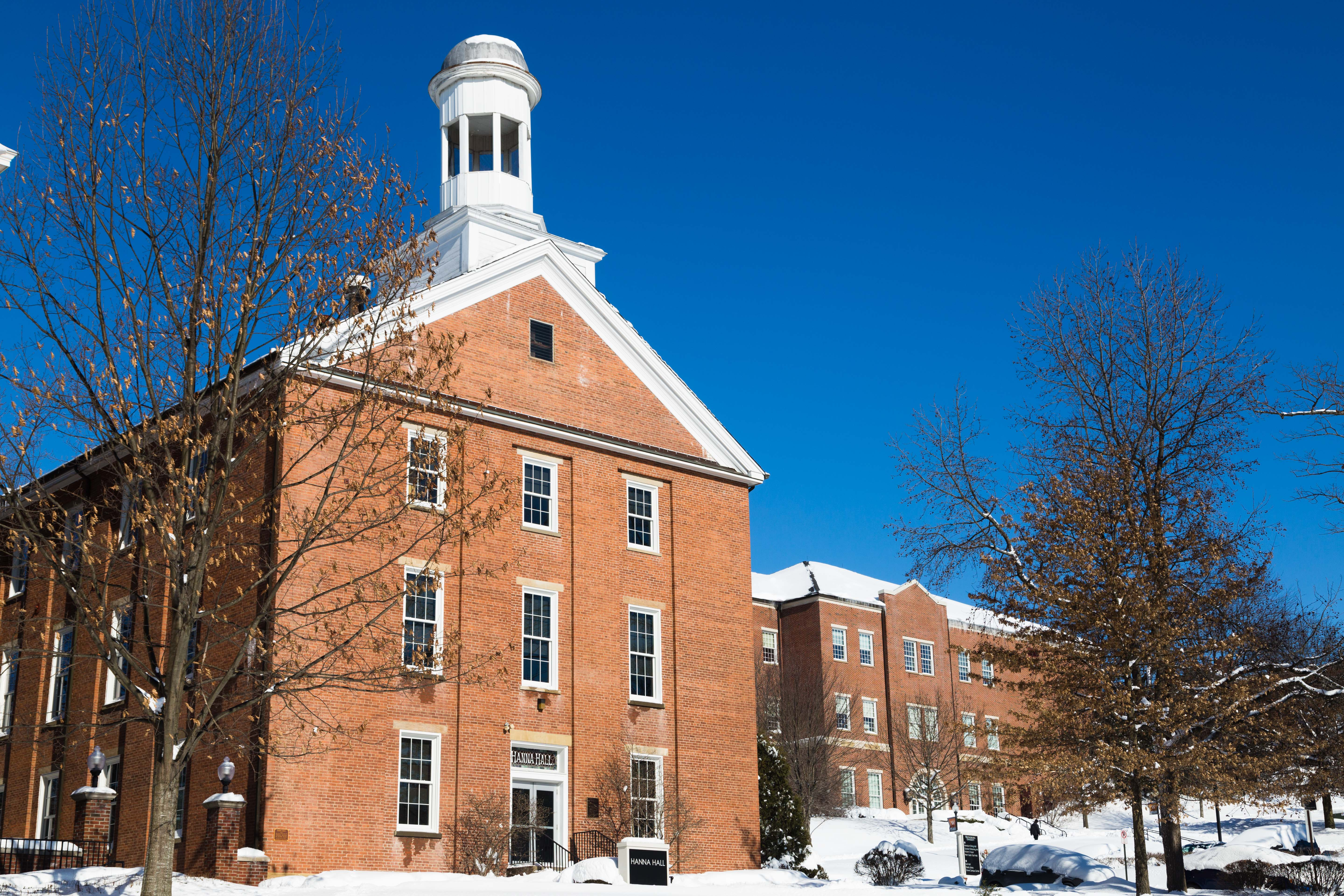 Front view of historic Hanna Hall